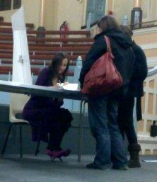 Madeleine Wickham AKA Sophie Kinsella at a signing in West Bromwich in 2010. I took this picture myself. What can I say, the wife dragged me along ;-)